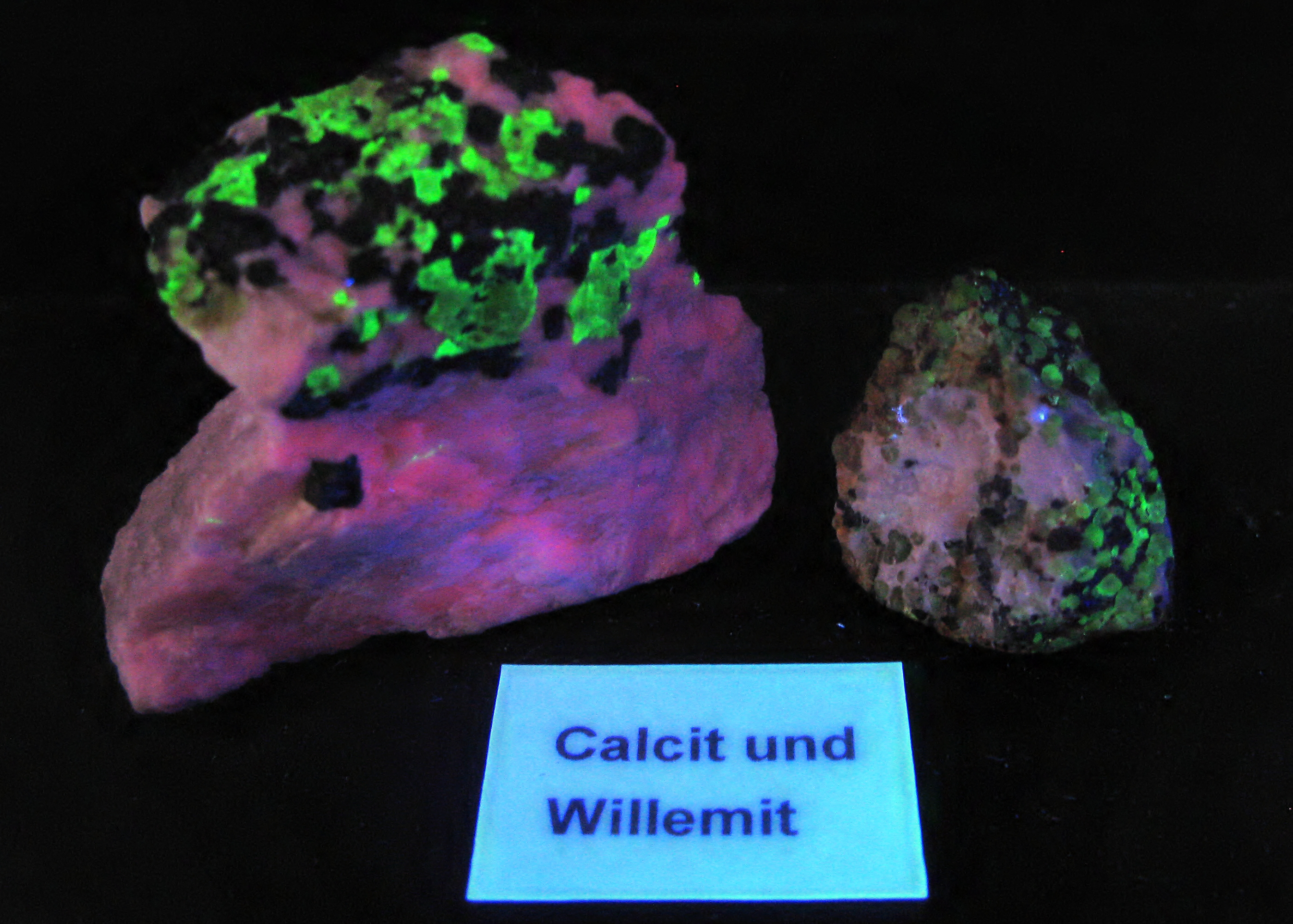 Calcite and Willemite with Fluorescence - Exposed in the Mineralogical Museum, Bonn, Germany